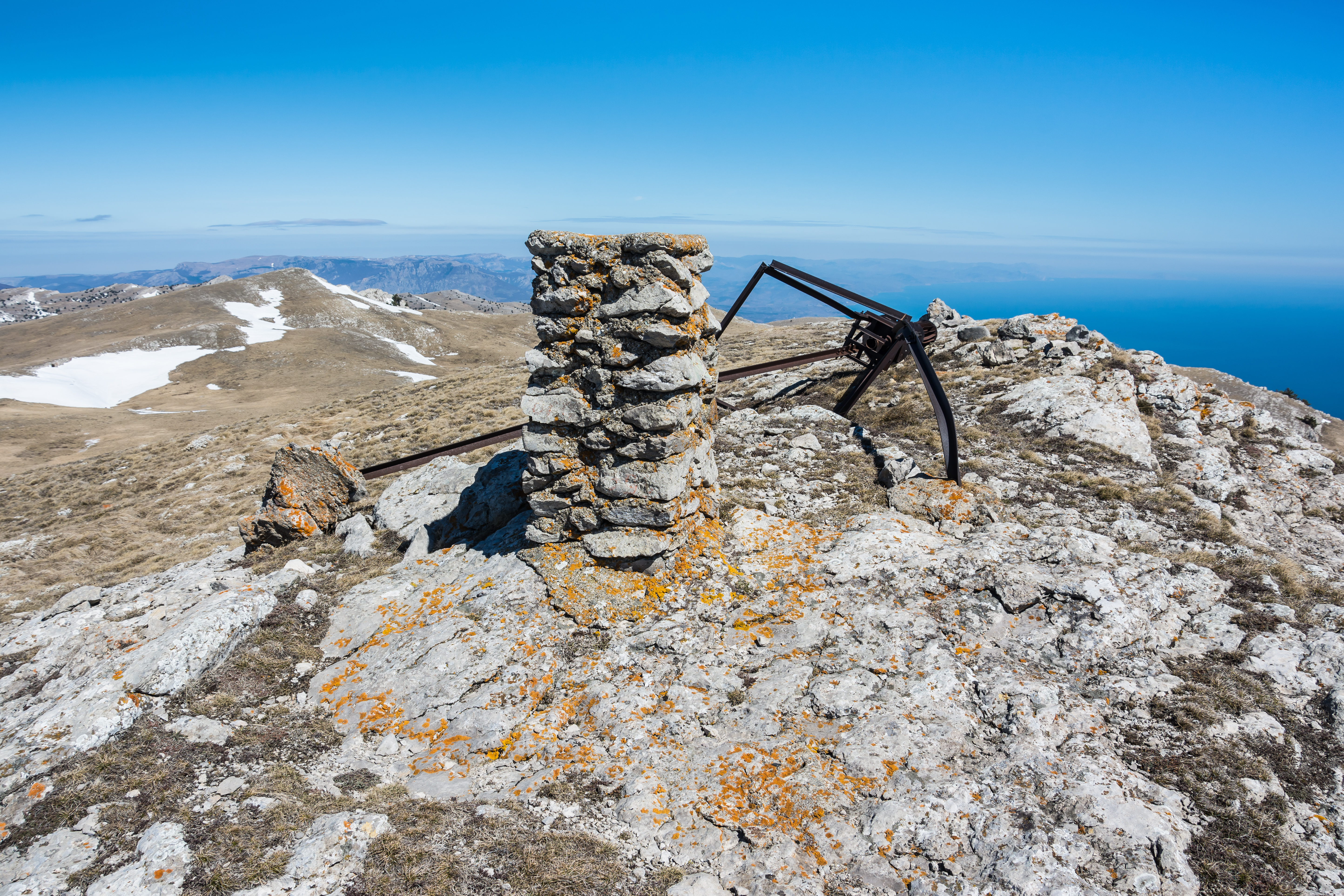 The top of mount Zeytin-Kosh (1537 m, Crimean Mountains).